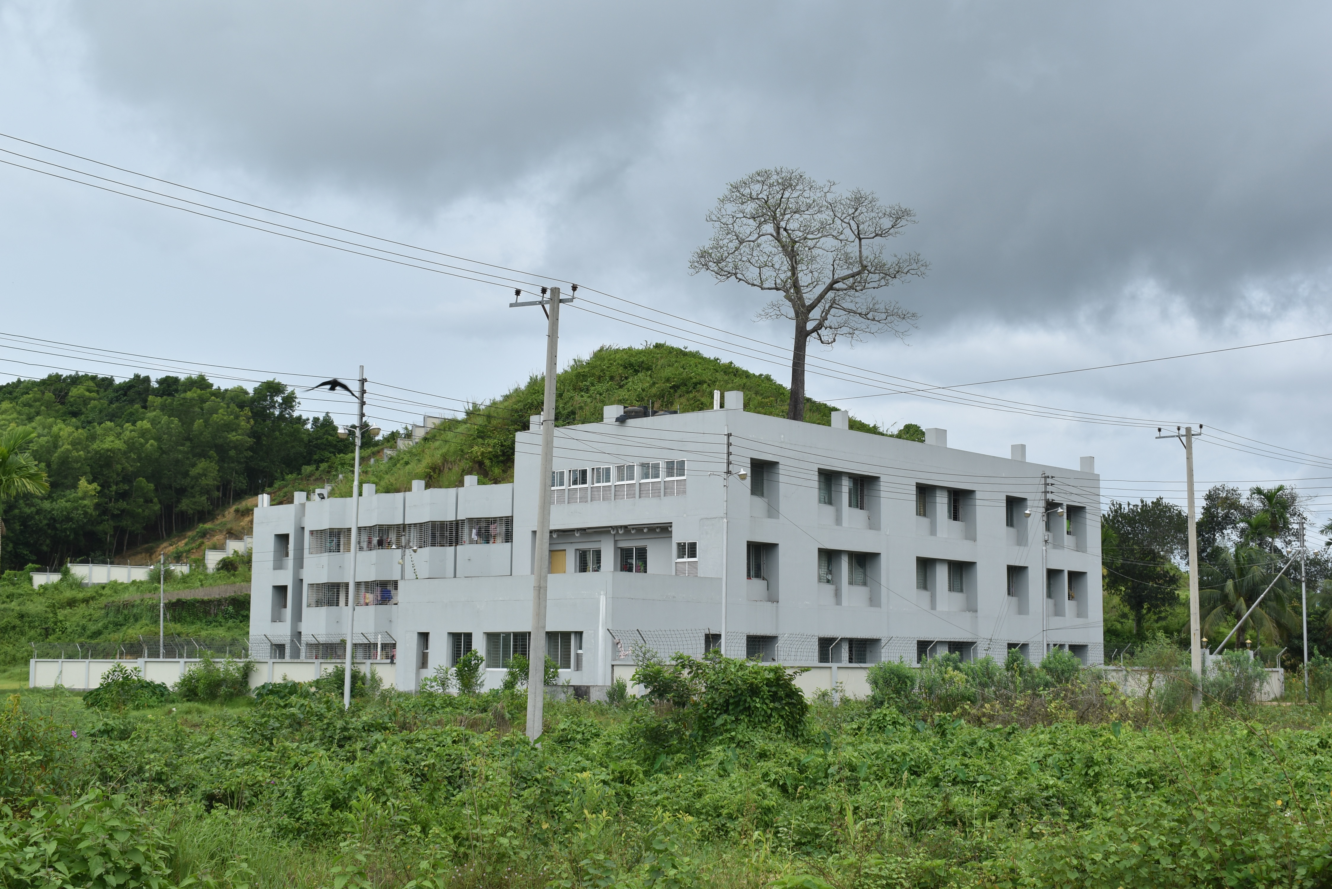 Snapped by Shouvick Chakma Tanza of CoxMC 6th Batch